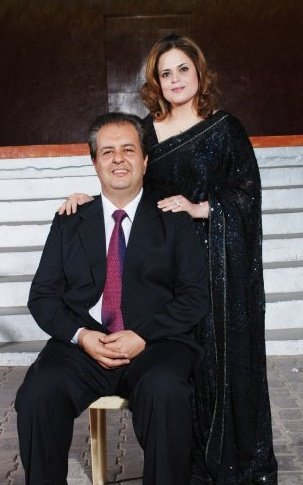 Mr. Sunil Olyai and Mrs. Tina Olyai